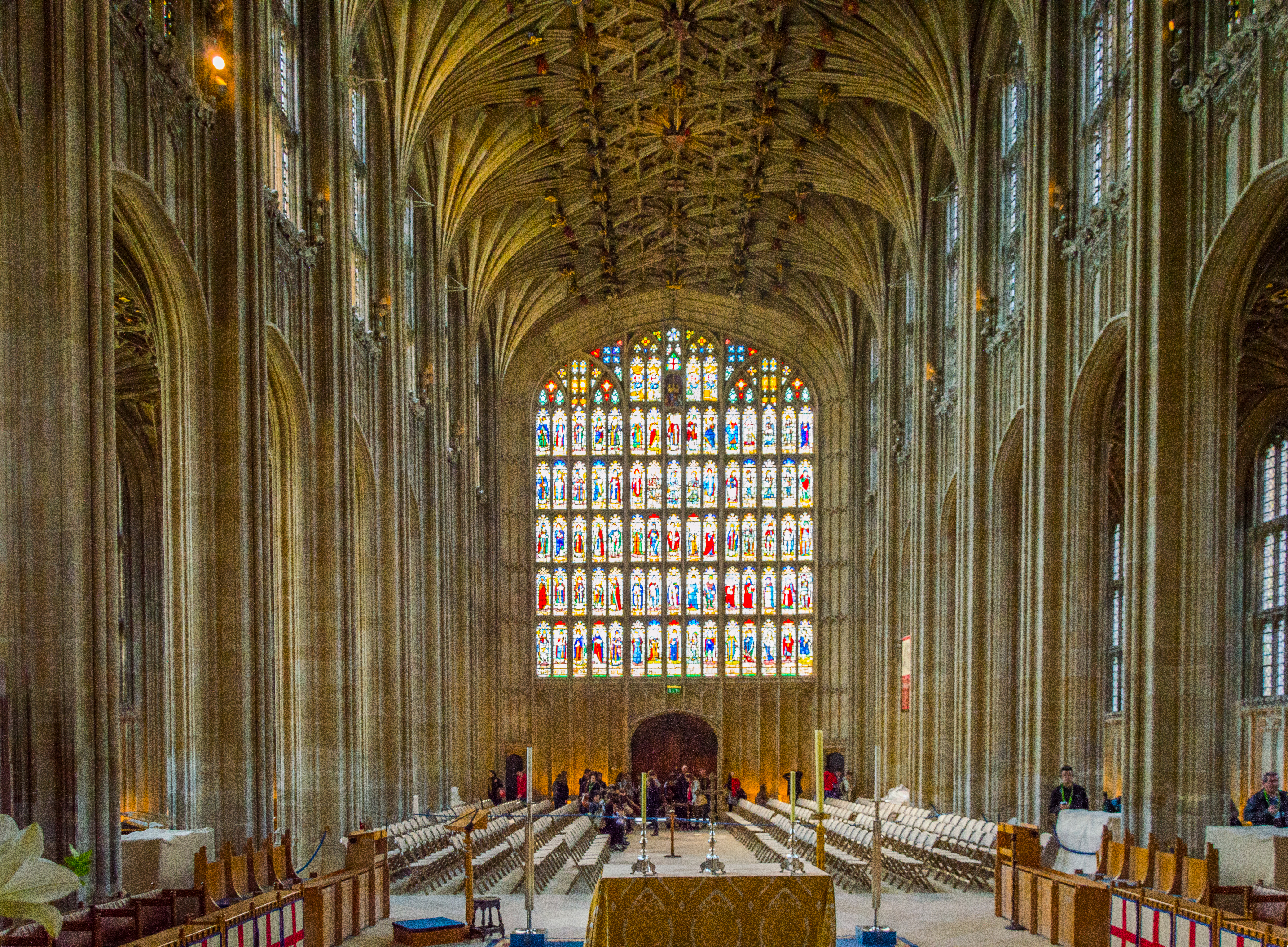 St George's Chapel, Windsor Castle, Berkshire. This huge chapel is one of the most visited areas of the Castle and is also one of the most beautiful. The Nave is dominated by this huge Great West Window (seen above), often claimed to be the third largest in the UK. While photography inside the Chapel is forbidden, I did manage to get a press pass to take a maximum of 5 pictures! The chapel dates from 1475 and is built in the richest Perpendicular Gothic style. The whole building is Cathedral size, at over 315ft (96m) in length!